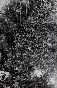 Aerial photograph of the crash site of Turkish Airlines Flight 981.